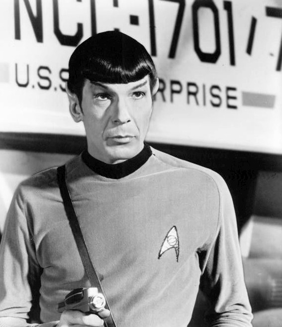 Photo of Leonard Nimoy as Mr. Spock from the original Star Trek series.